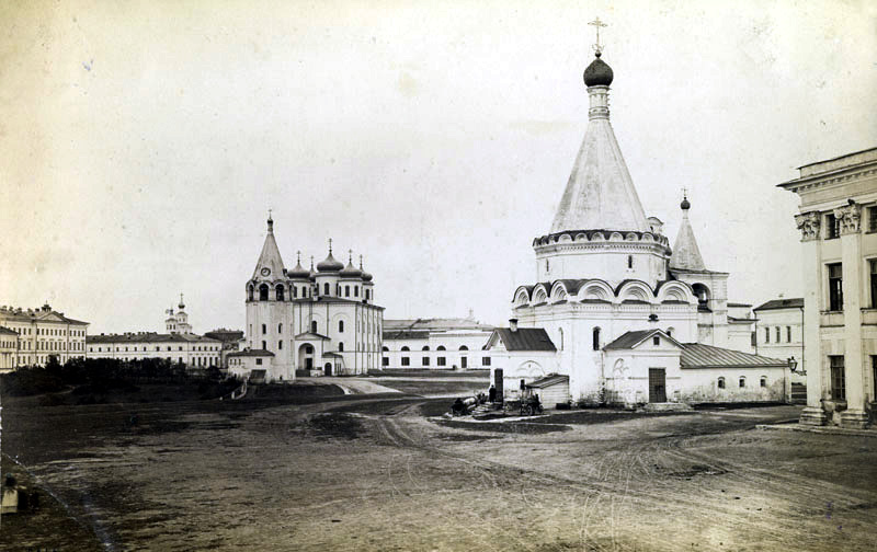 The kremlin cathedrals in Nizhny Novgorod